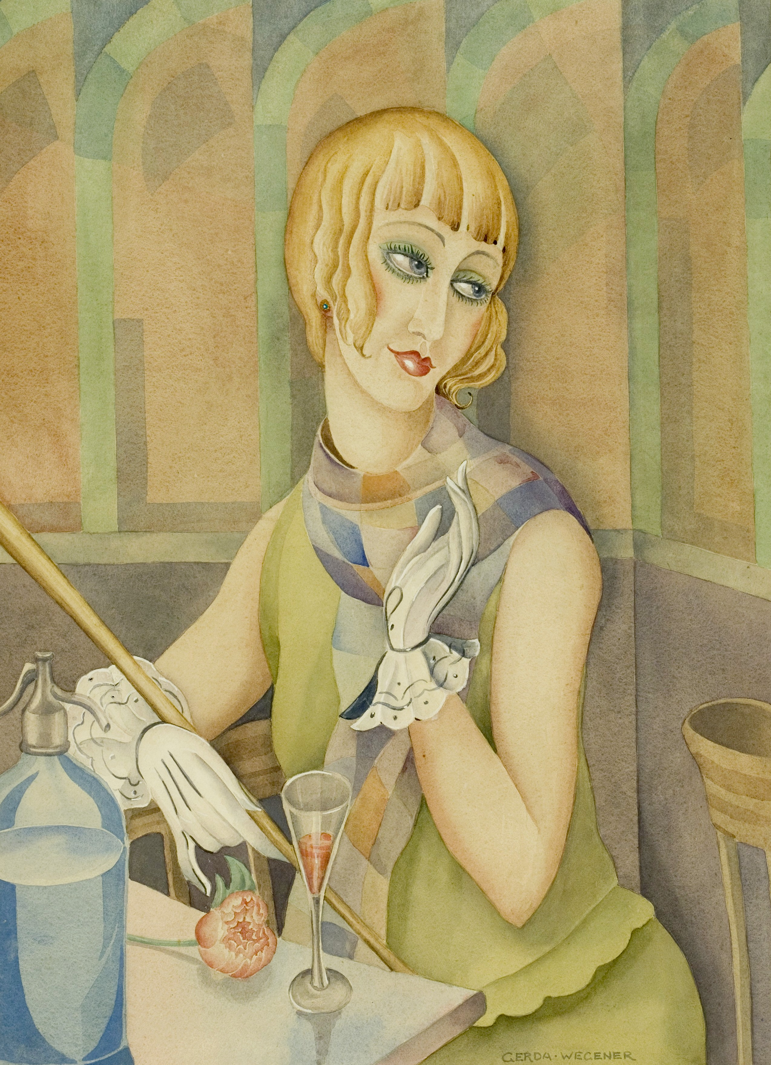 Lili Elbe was trans woman. She was born a male in Denmark in 1882 and named Einar Wegener. She married Gerda Wegener: they were both painters. She changed sex and was called Lili Elbe. Elbe had several surgical operations to reconfigure her genital organs, and died in the course of her fifth operation.